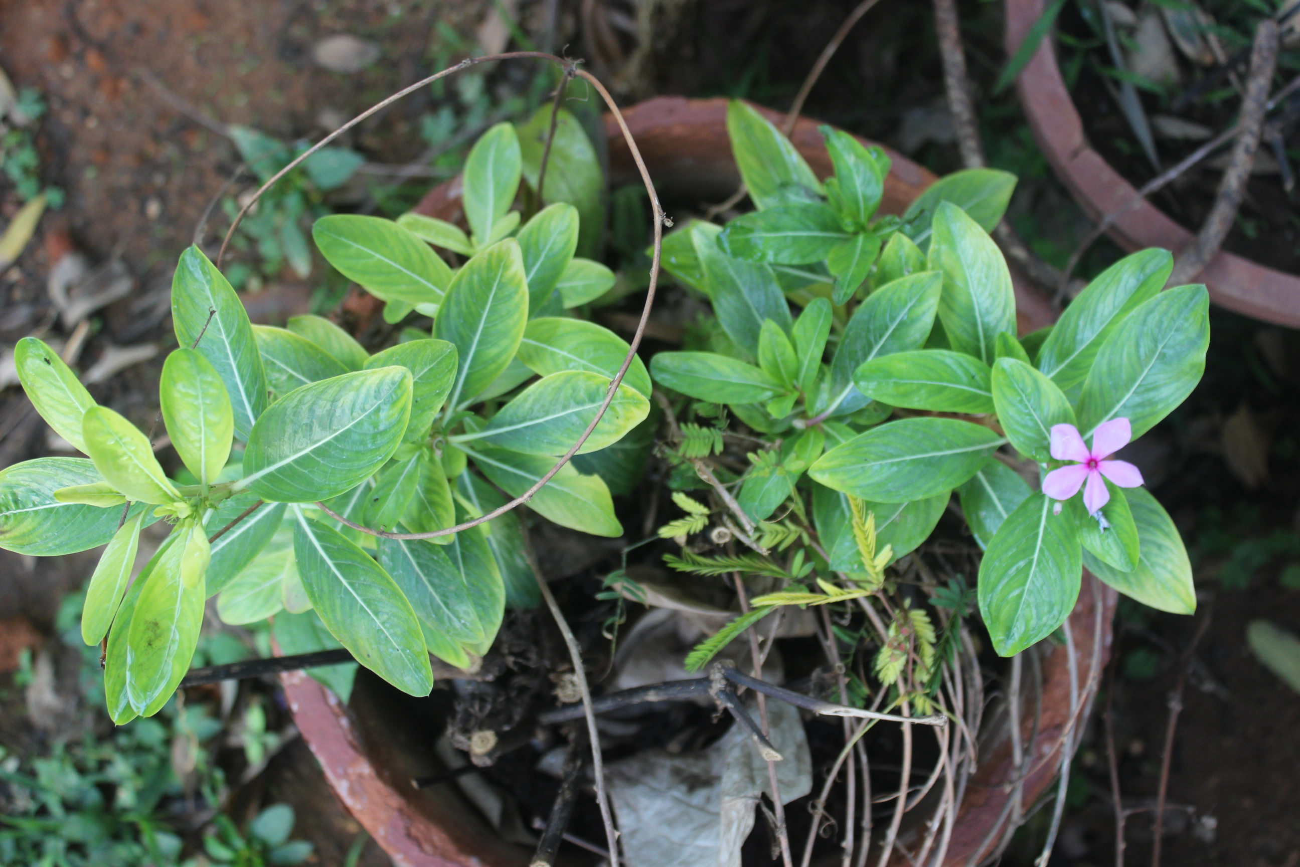 Vinca